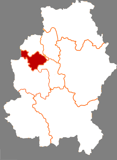 Location of Chuanying district in Jilin City, China